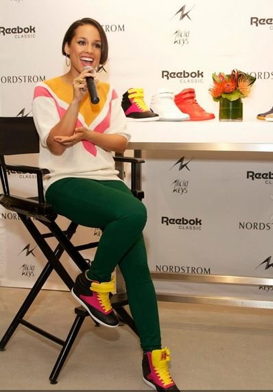 Alicia Keys for Reebok Classic